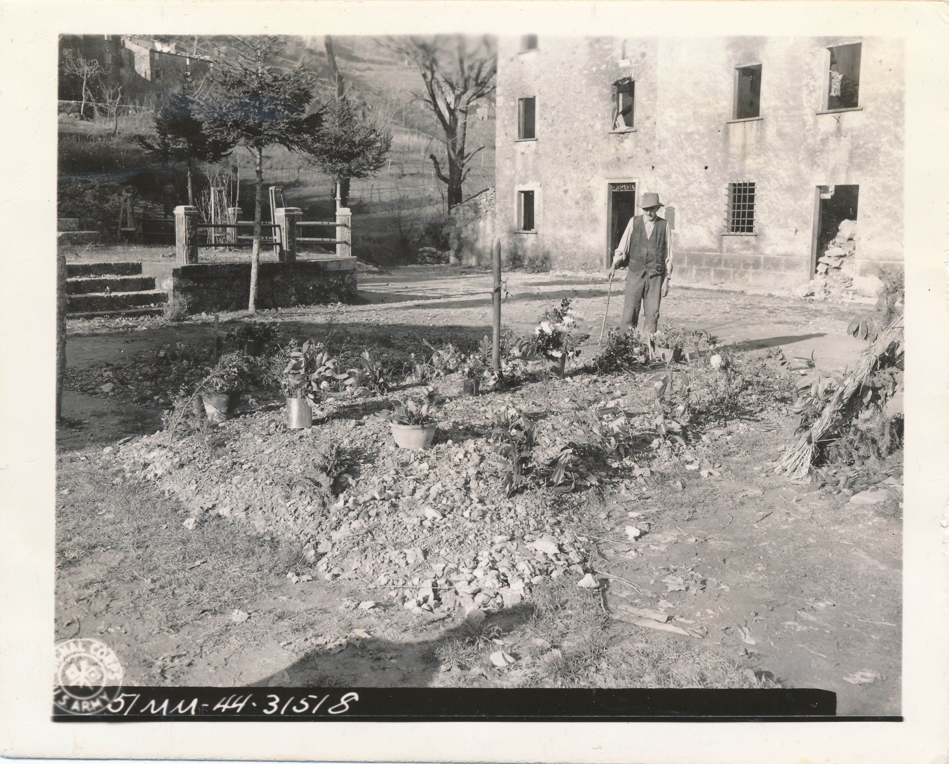 U.S. Army Signal Corps photograph of Sant'Anna di Stazzema.